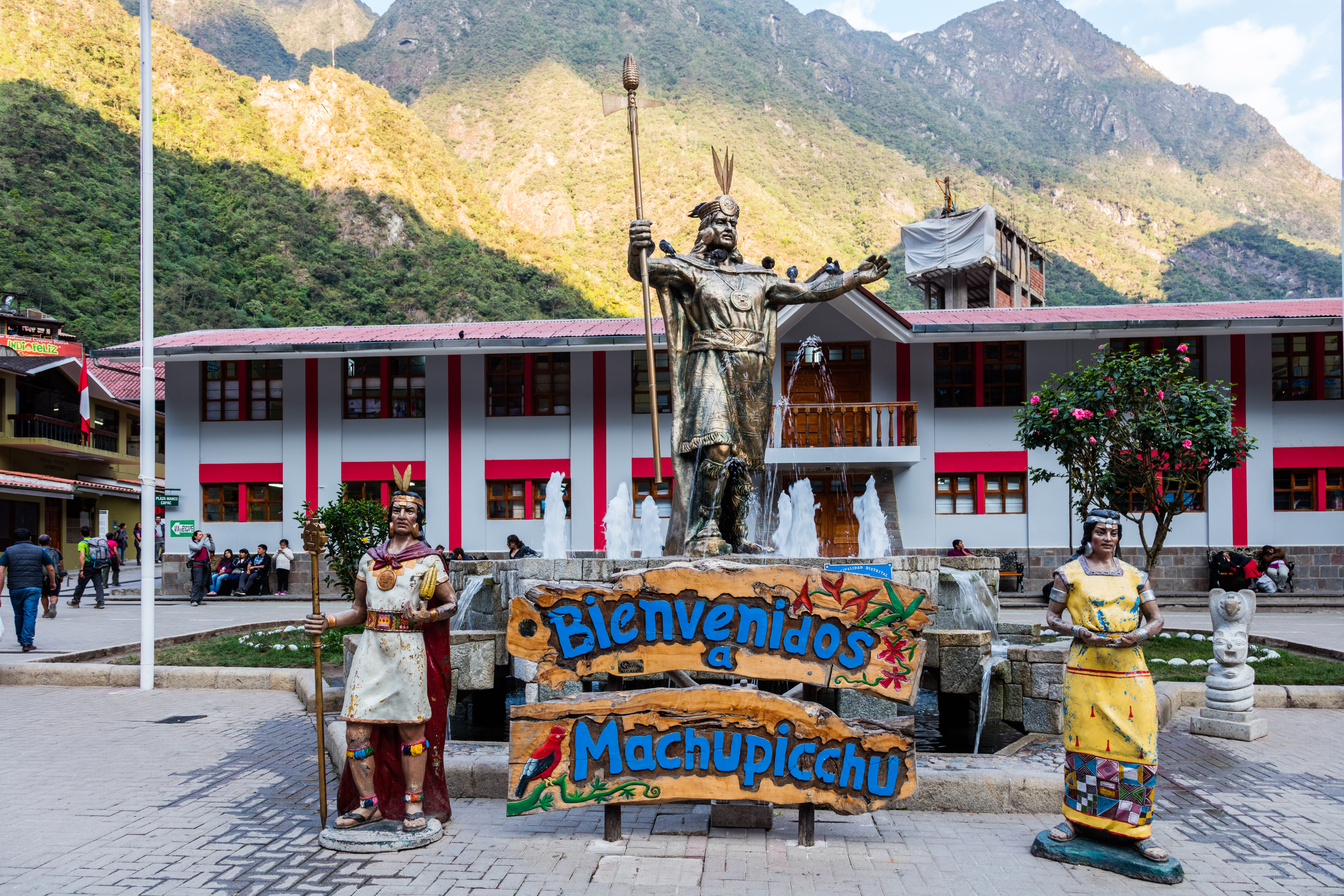 Pachacútec statue, Aguas Calientes, Cuzco, Peru